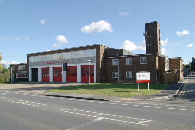 Maidstone fire station. Maidstone fire station, Loose Road, Maidstone, Kent, showing a less oblique view than 85495